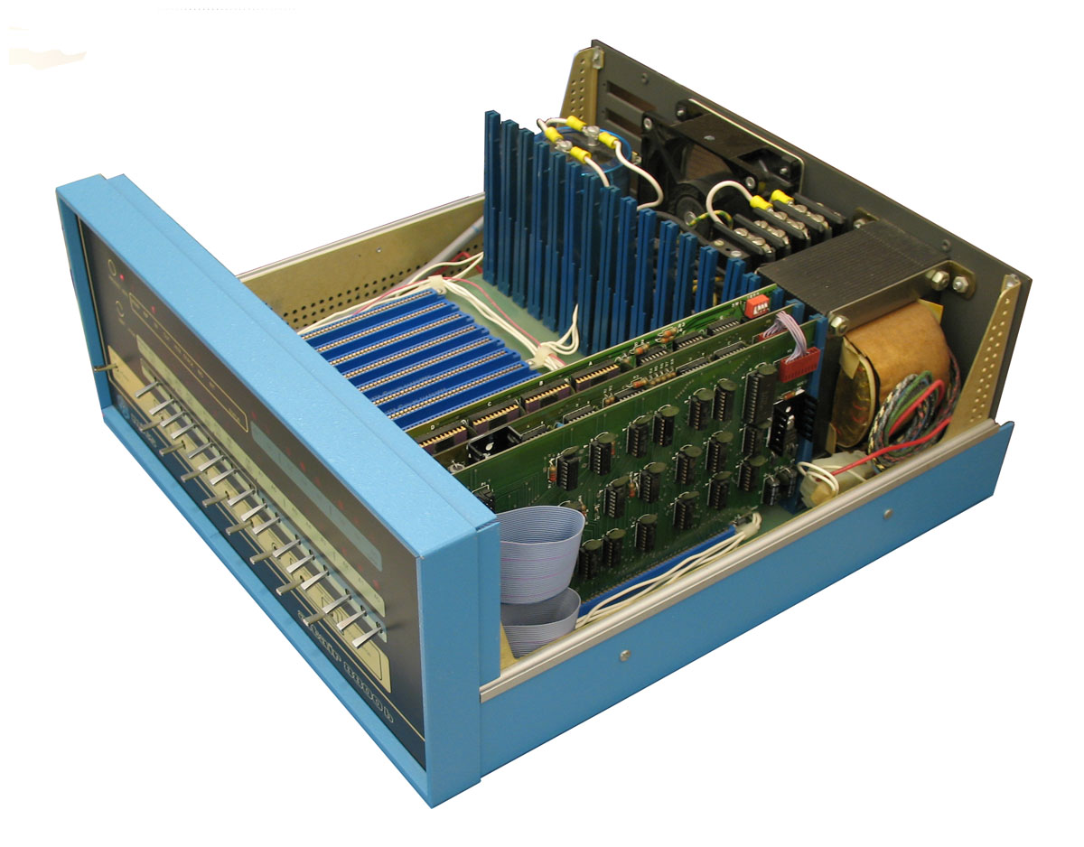 The MITS Altair 8800b was introduced in mid 1976 as the successor to the original Altair 8800 that appeared on the cover of Popular Electronics in January 1975. It had an improved front panel, larger power supply, an 18 slot mother board. The price was $840 for a kit and $1100 for an assembled unit. A typical hobbyist system with 16K of memory, a video display, a cassette tape data storage, and BASIC language software would be around $2000. The BASIC language software was written by Bill Gates, Paul Allen, and Monte Davidoff. Computer displayed by Robert Rosenbloom at the Vintage Computer Festival. This was held at the Computer History Museum in Mountain View, California, November 2007. Photo by Michael Holley, November 2007. Taken with a Canon PowerShot A630 (1/13 second and F/2.8) with existing light.